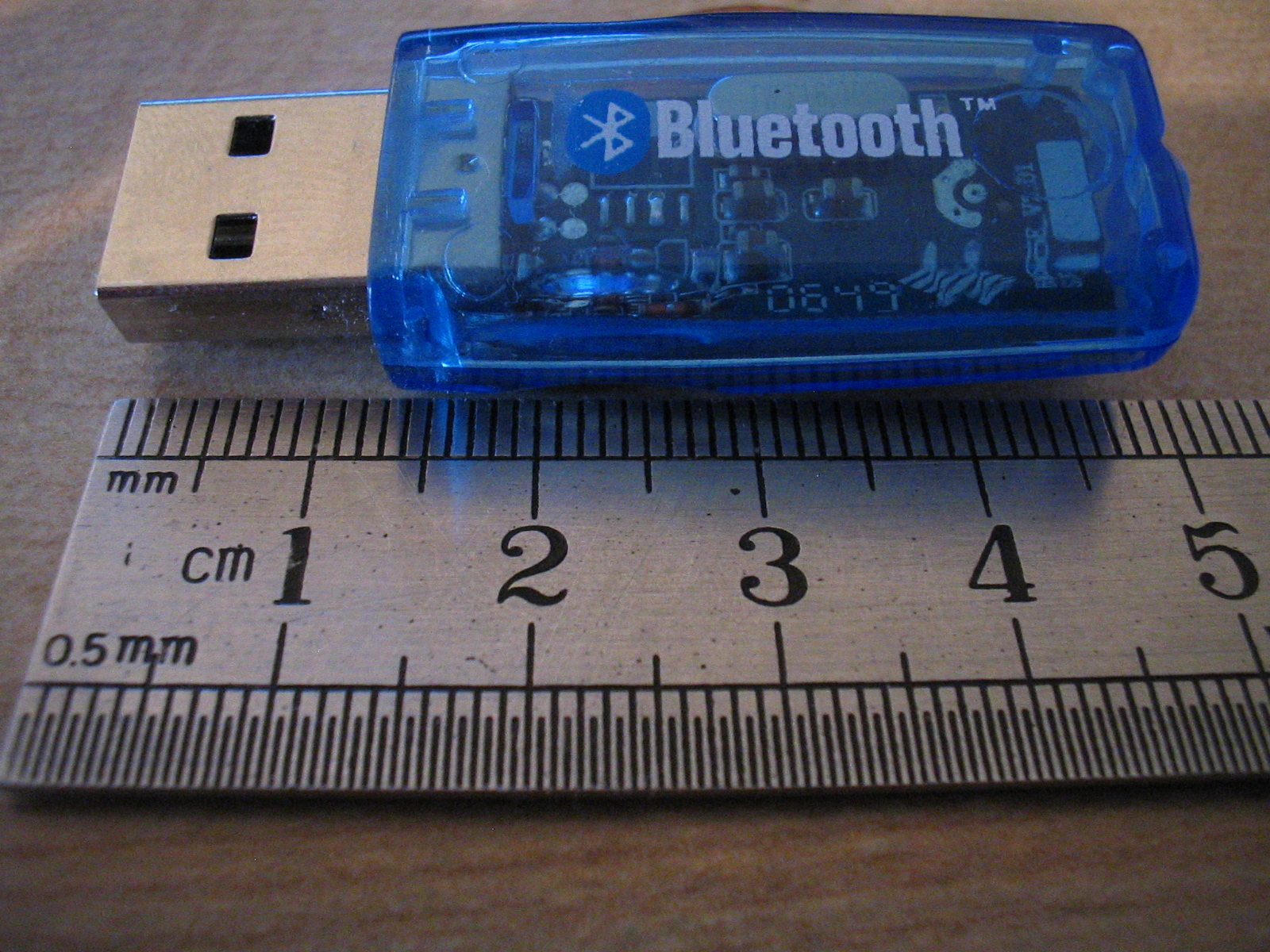 A USB Bluetooth adapter. (current image has a coin for comparison, this one has a ruler)